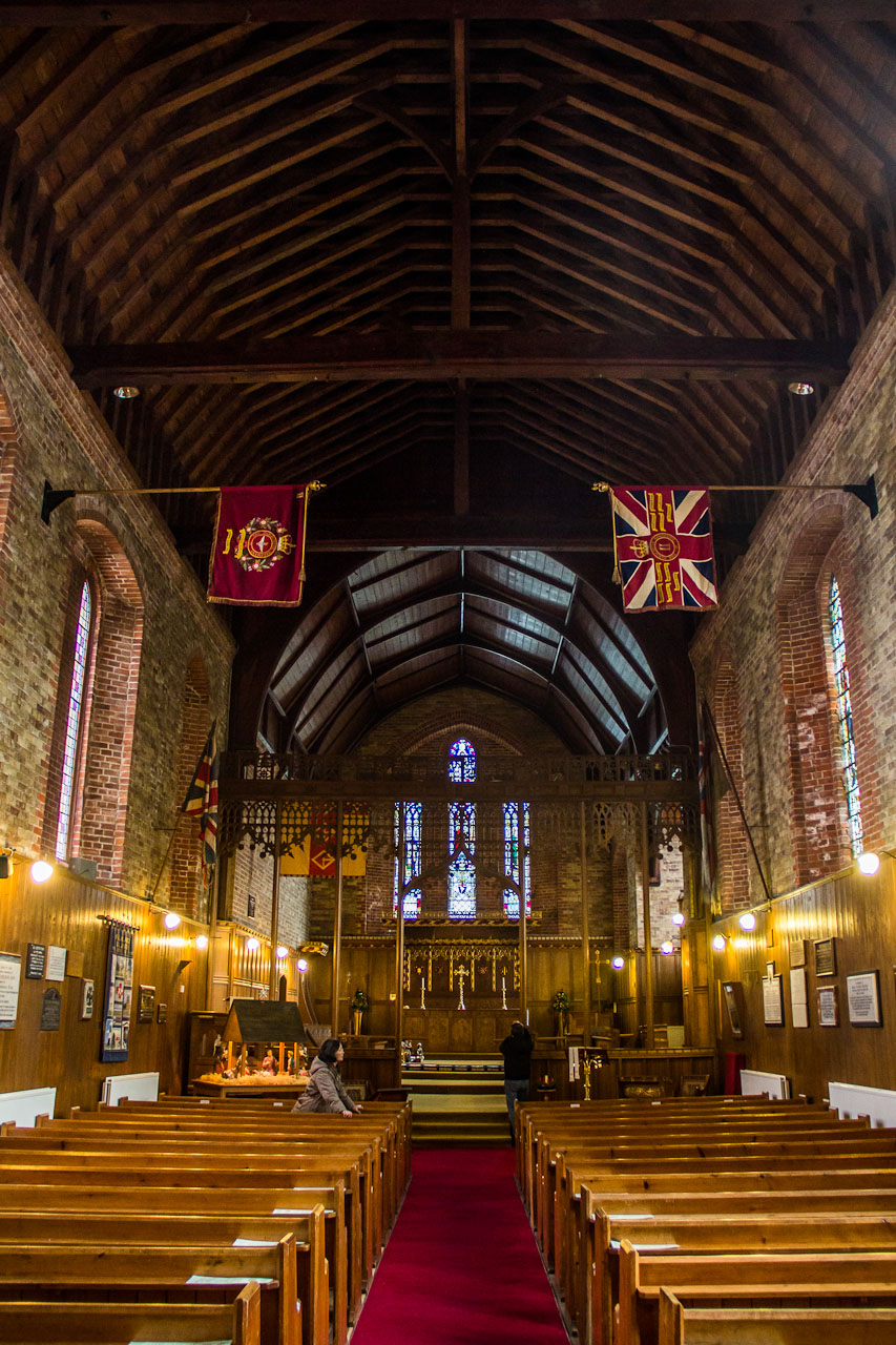 Christ Church Cathedral interior